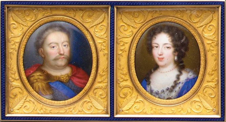 Pair of Portrait Miniatures of Jan (III) Sobieski, King of Poland, and his Queen Maria Kazimiera